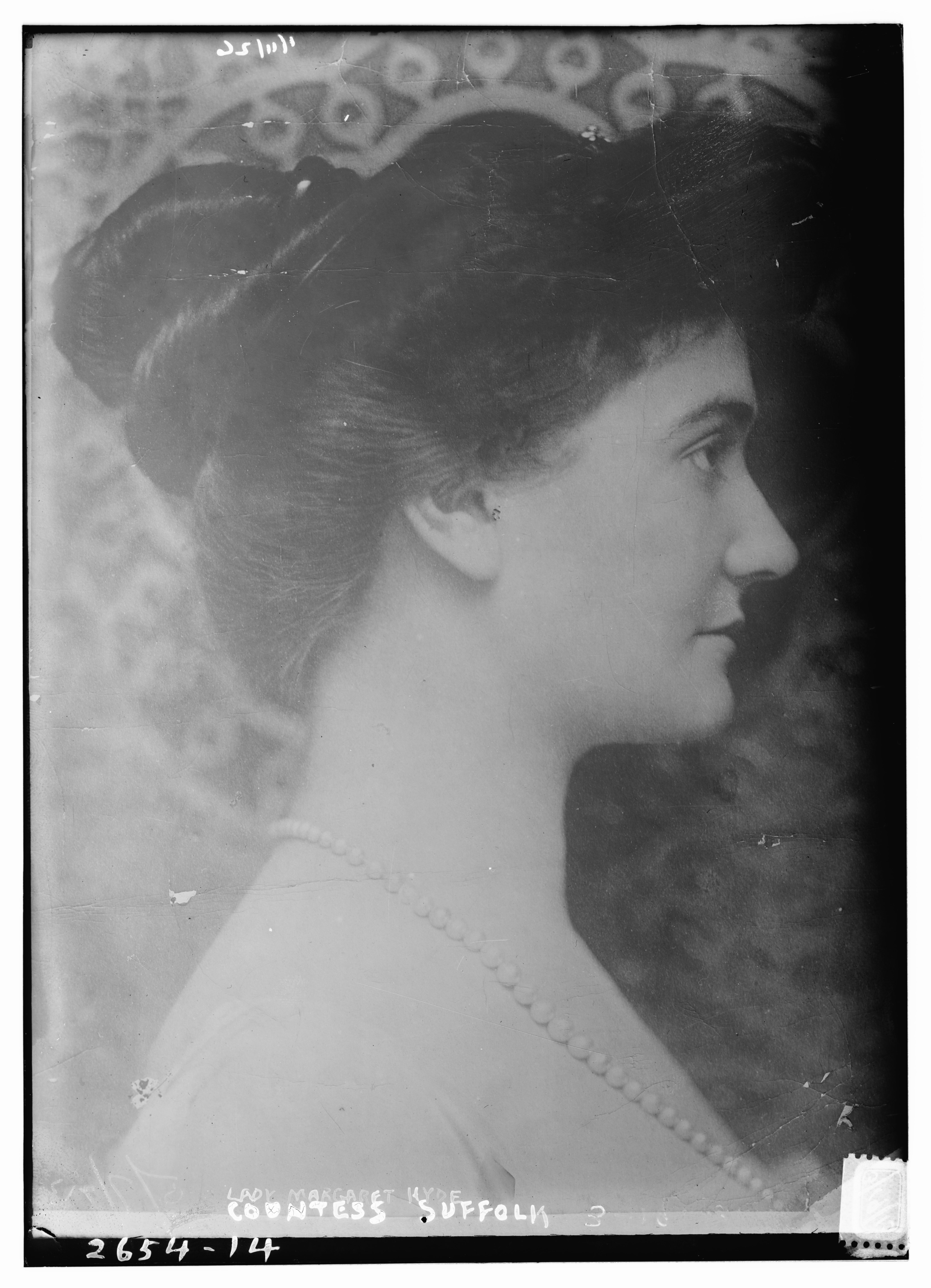 Title: Countess Suffolk Abstract/medium: 1 negative : glass ; 5 x 7 in. or smaller.